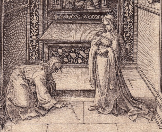 Detail - Etching “Altar tabernacle with the adulterous woman “ from Daniel Hopfer